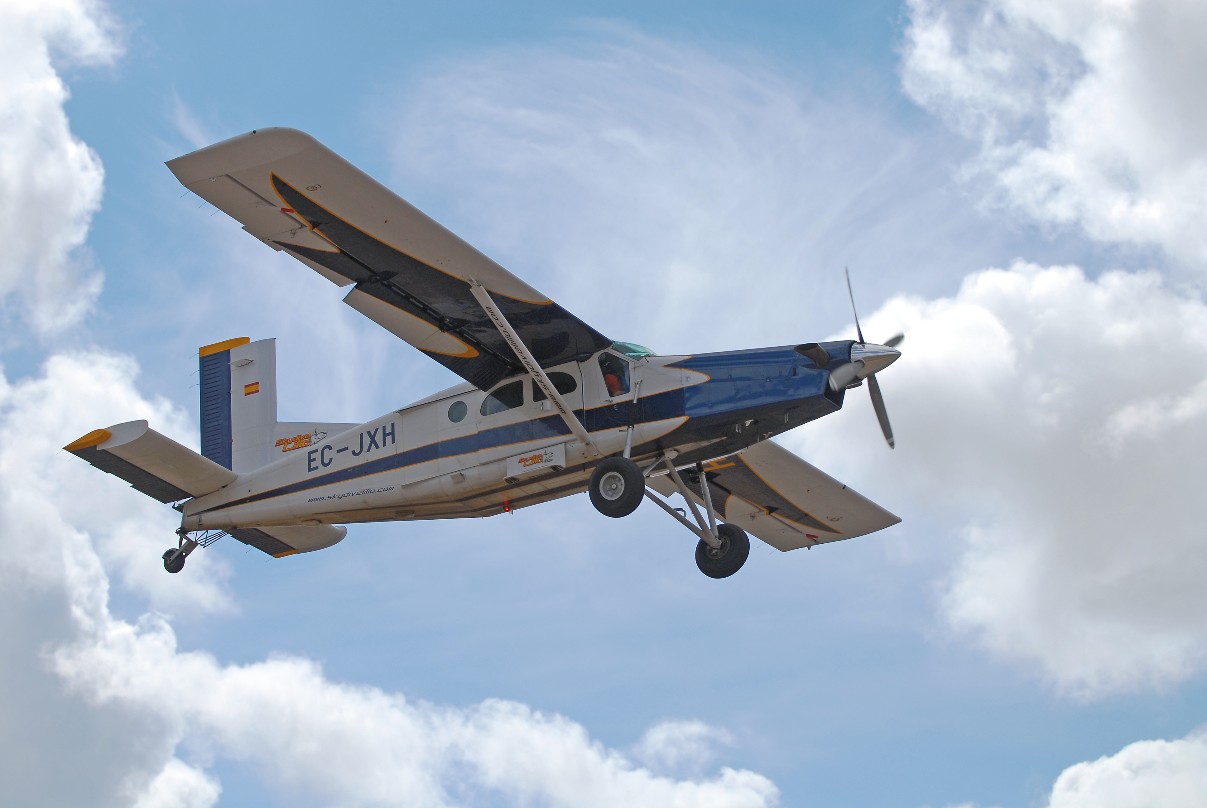 The Pilatus PC-6 Turbo Porter jump plane of Skydive Lillo, in Lillo, Spain. This is the B2-H4 PT6A-34 variant. The picture was taken shortly after take-off from the ground. The plane crashed on May, 30, 2008.